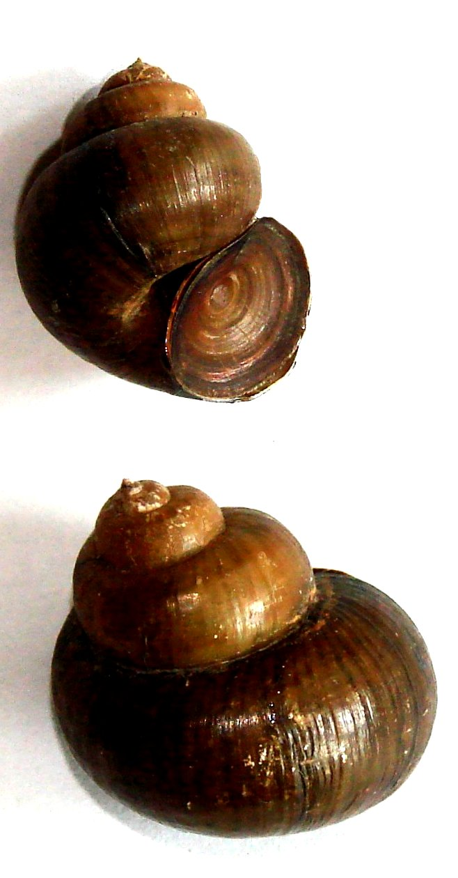 Viviparus contectus